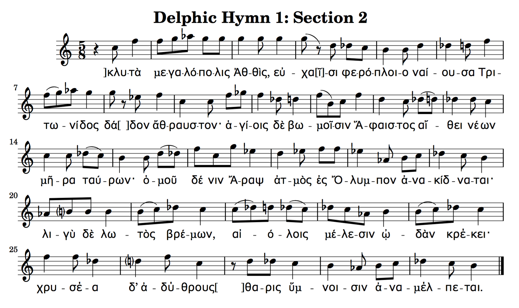 The second verse of the First Delphic Hymn transcribed into modern musical notation, using LilyPond.